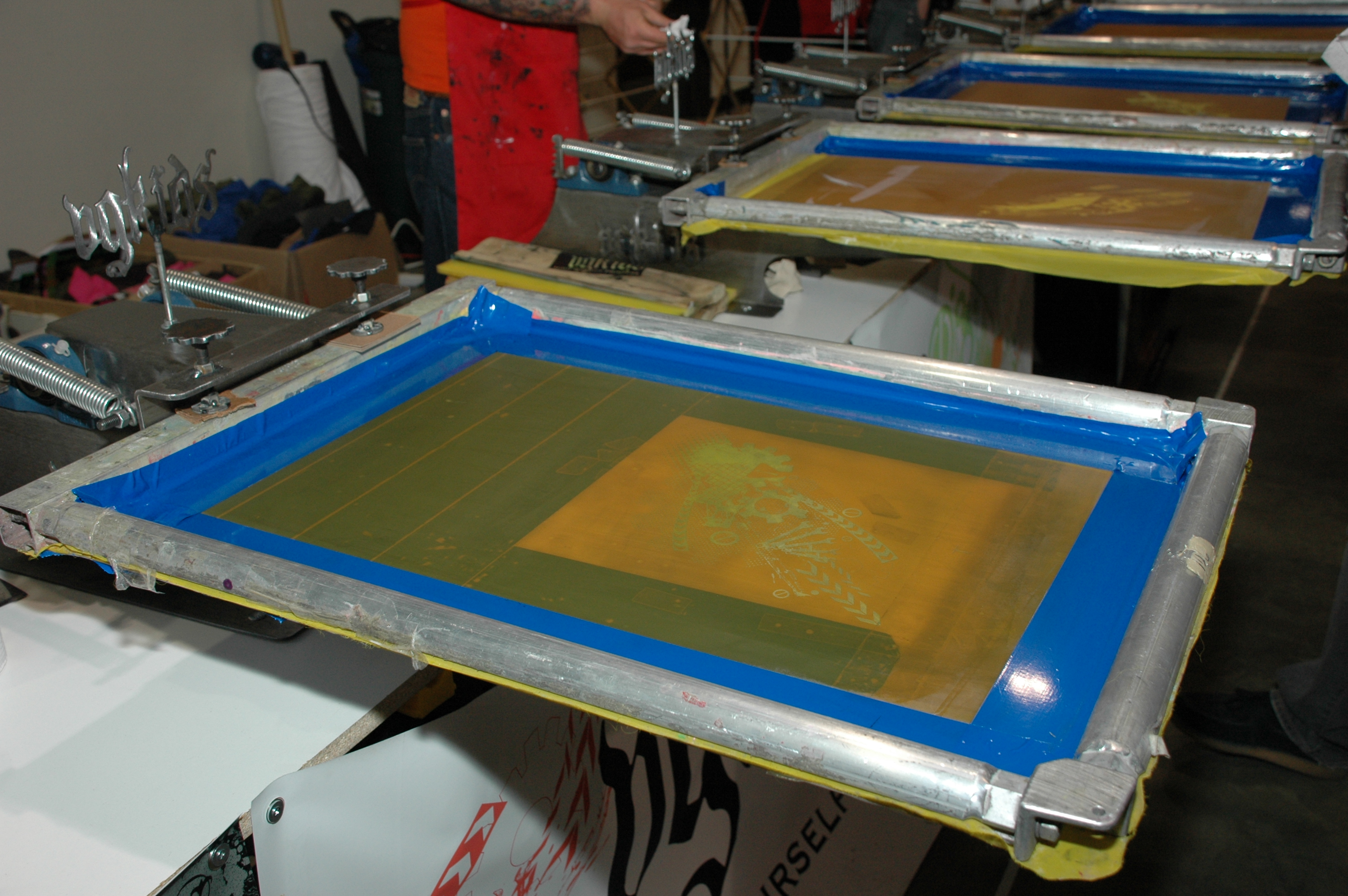 Maker Faire 2008, San Mateo - Shirt screen printing.